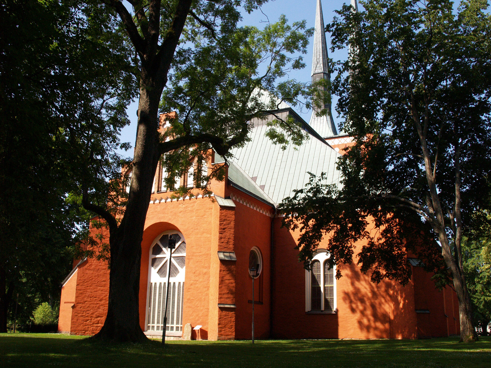 Cathedral of Växjö, Sweden